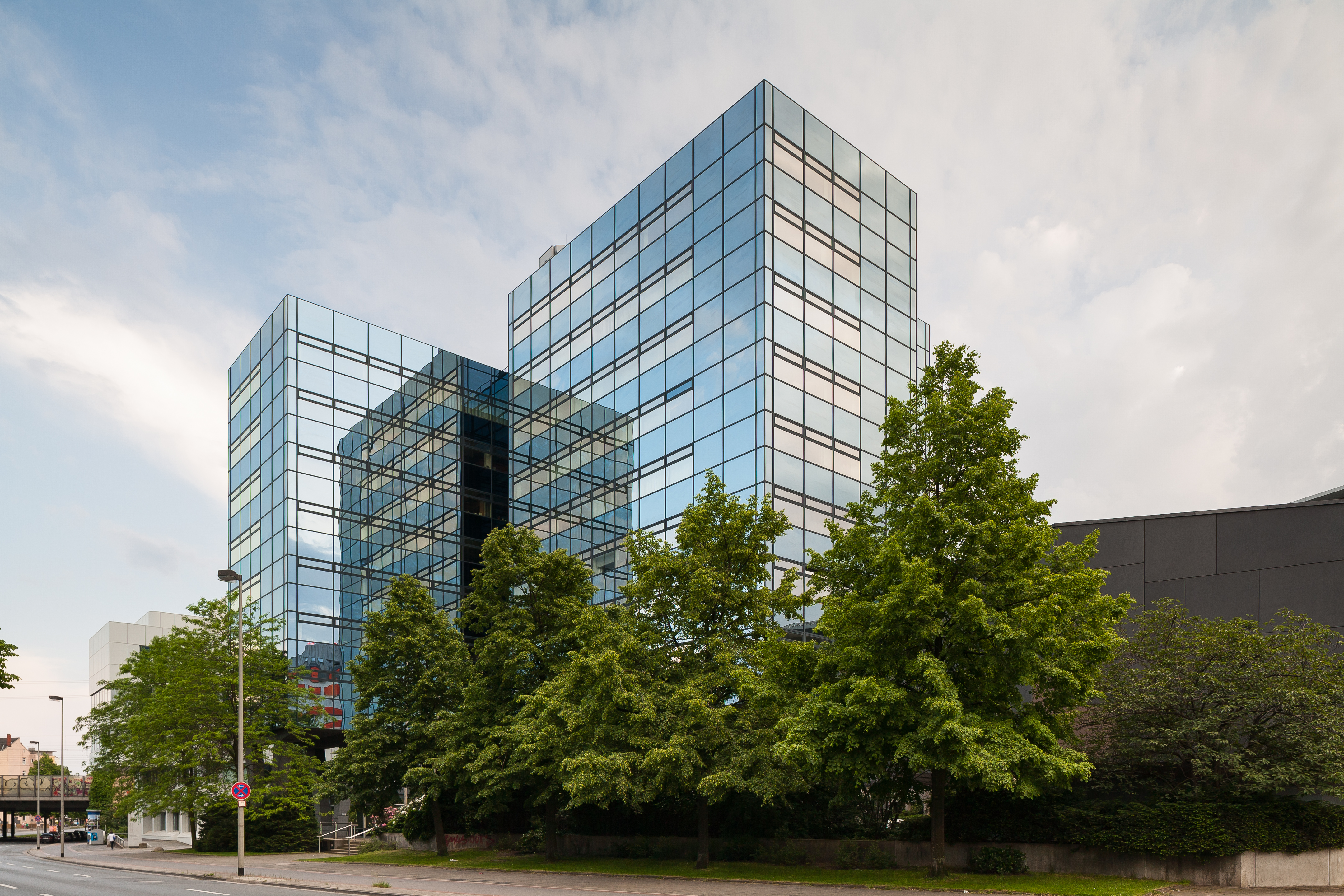 Office building located at Berliner Allee in Hanover, Germany.